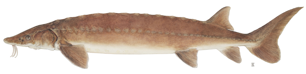 Lake Sturgeon (Acipenser fulvescens)